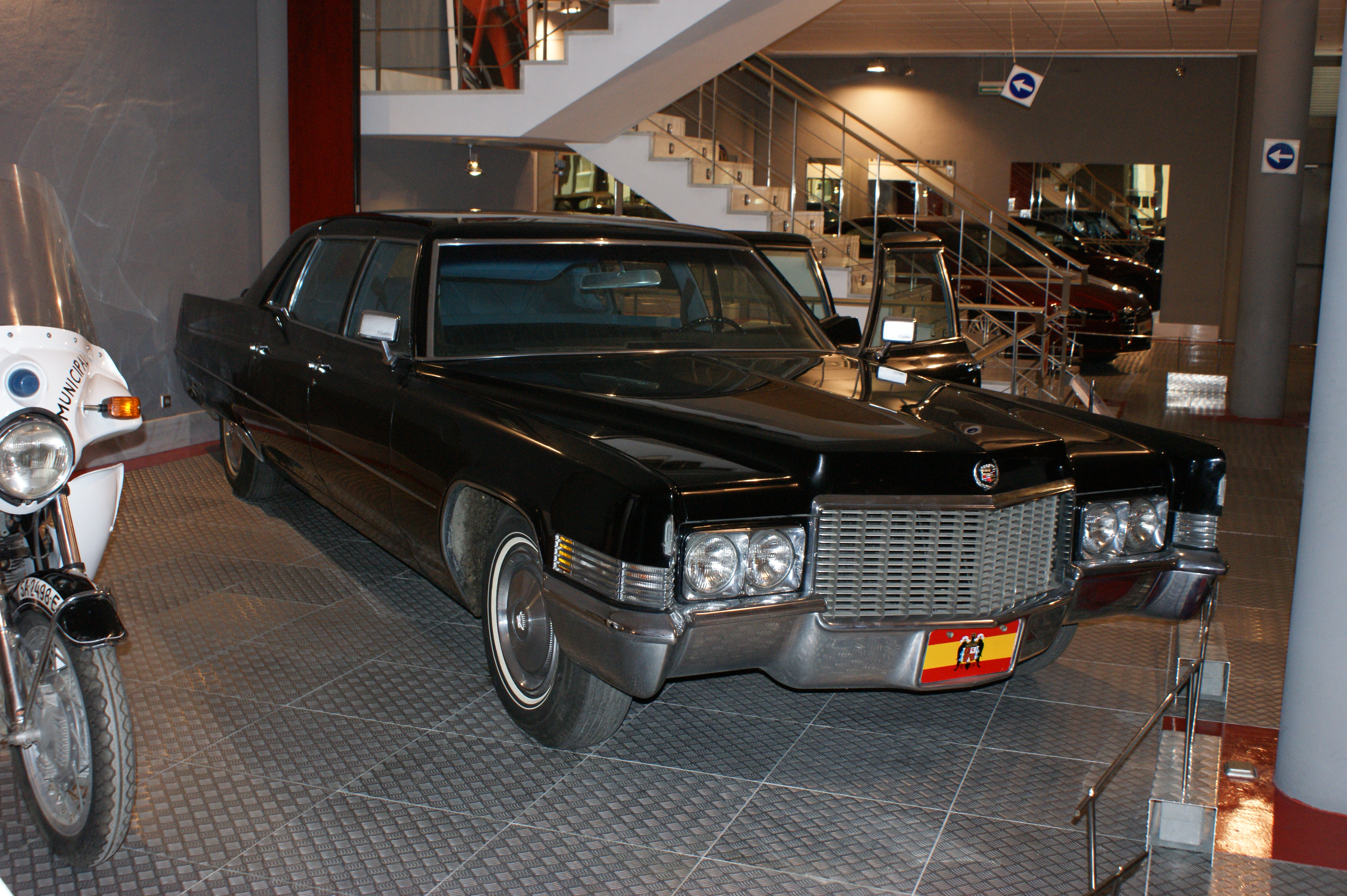 1970 Cadillac Fleetwood 75, 7 litres, General Franco's official car, at the Salamanca Motor Museum, 04/08.